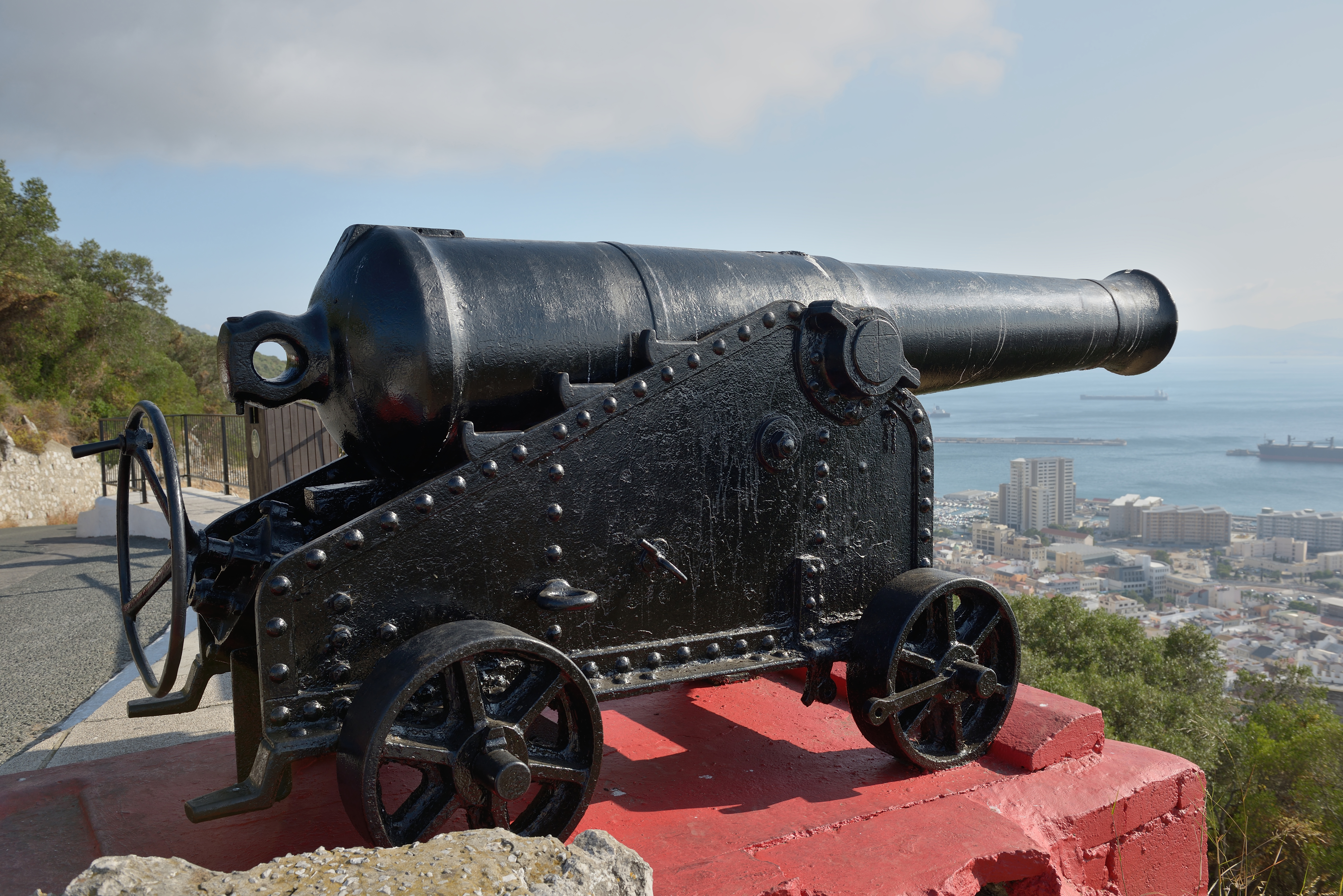 64 Pounder Rifled Muzzle Loading (RML) gun, c1872 in Gibraltar.